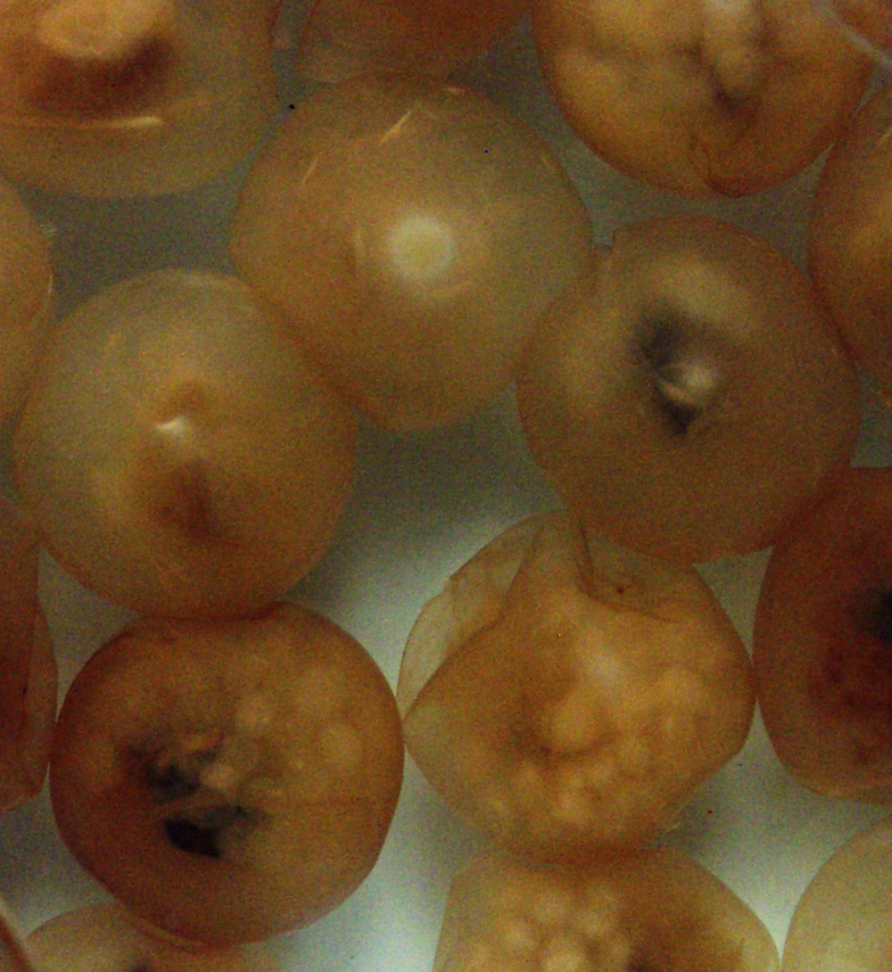 Preserved specimens of Gigantocypris sp. from Antarctica